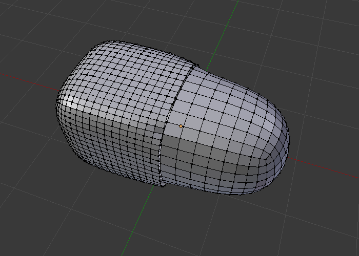 This is a screenshot of T-vertices in Blender, created by joining a subdivided part with a non-subdivided part, and applying a subdivision modifier. The T-vertices result in cracks in the model because subdivision surfaces only work for meshes with correct topology.